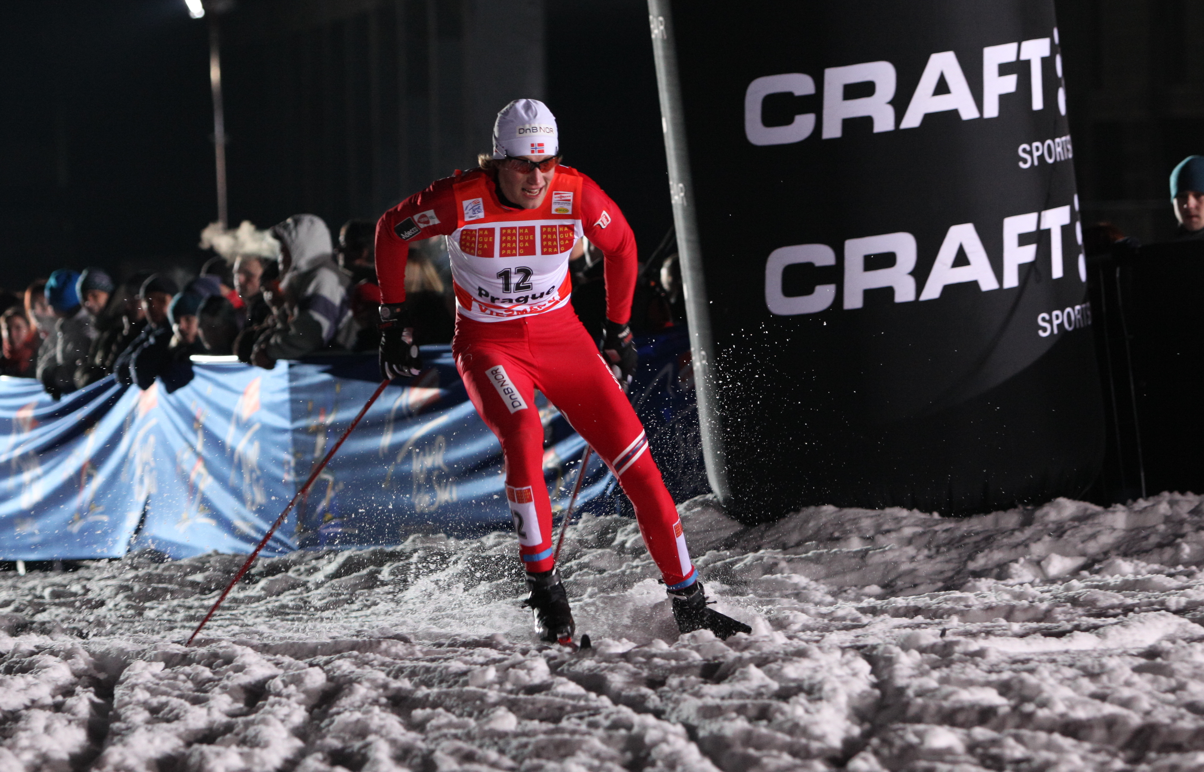 Simen Østensen, Norwegian cross-coutry skier, in 2010